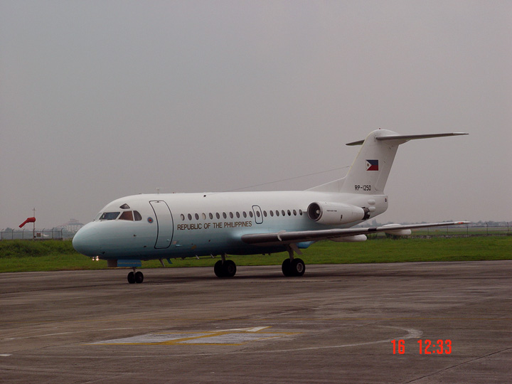 The only Fokker F28 of the Philippine Air Force that is being used for transporting the President of the Philippines (Presidential Aircraft t/n 1250).